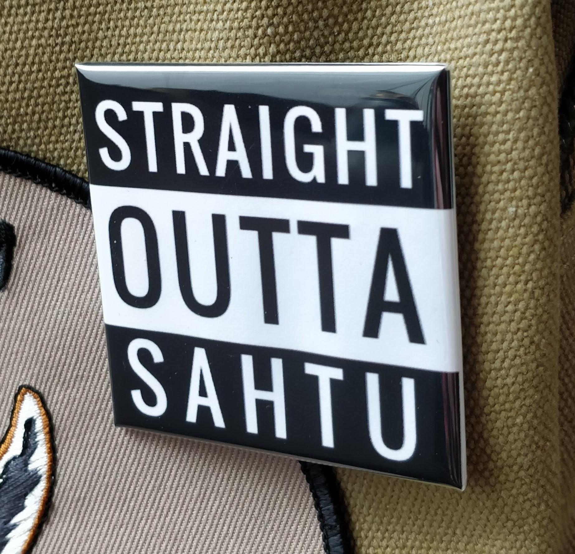 A humourous souvenir of the Sahtu region, showing the name in colloquial use.